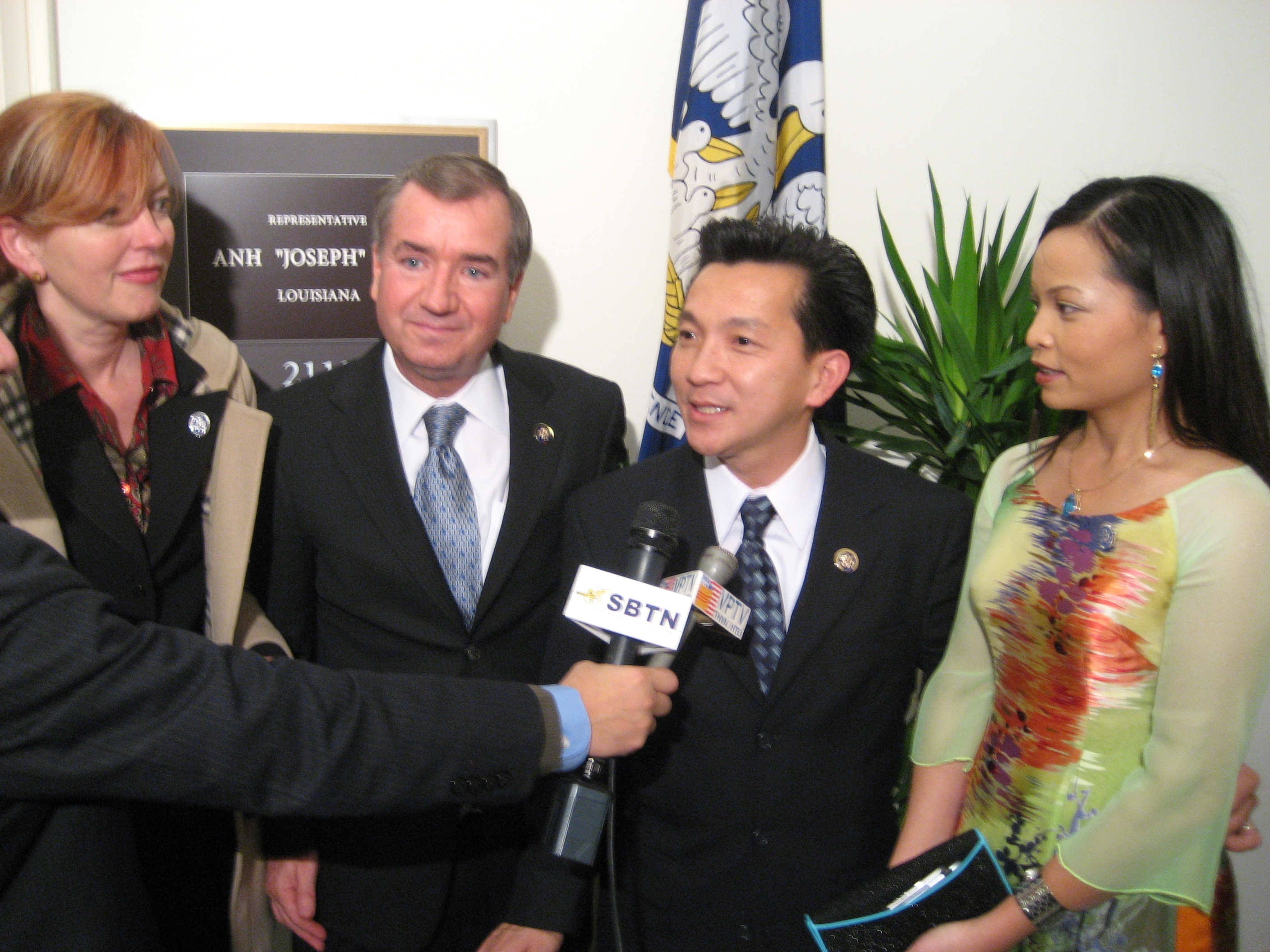 Congressman Ed Royce and his wife Marie welcomes newly-elected Member of Congress Anh "Joseph" Cao and wife Hieu "Katie" Hoang to the House of Representatives, at a press conference outside of Congressman Cao's new office in the United States Capitol.